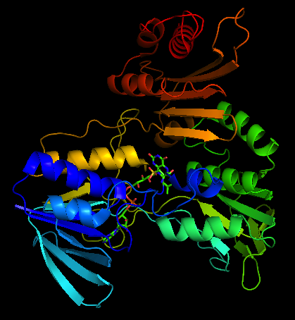 Structure of NADH Peroxidase from Enterococcus faecalis generated with the assistance of Pymol and originating in the free license RCSB Protein Data Bank